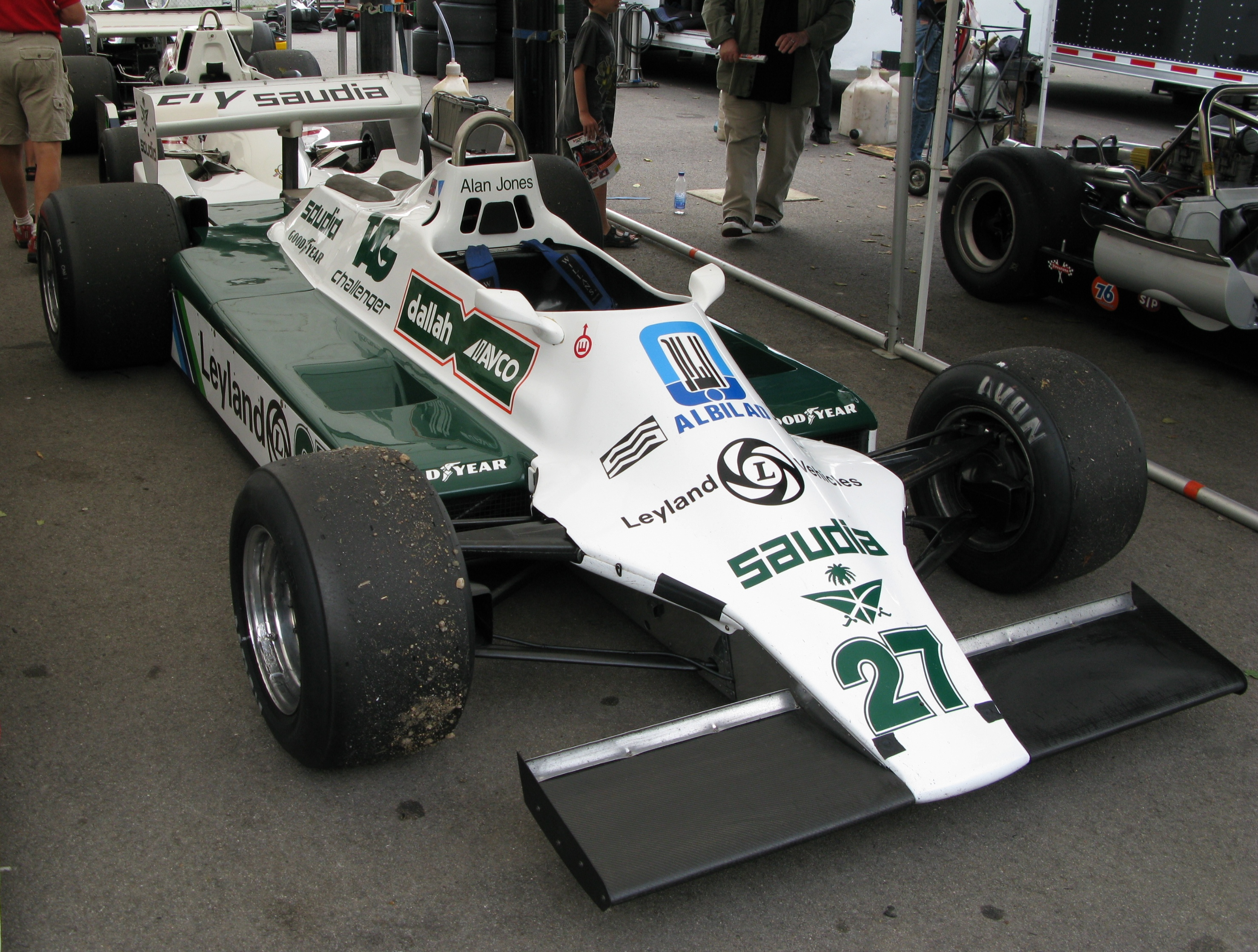 A Williams FW07 Formula One car (chassis FW07/04), pictured during the Sommet des Légends race meeing, Circuit Mont-Tremblant, Quebec, Canada. July 2009.